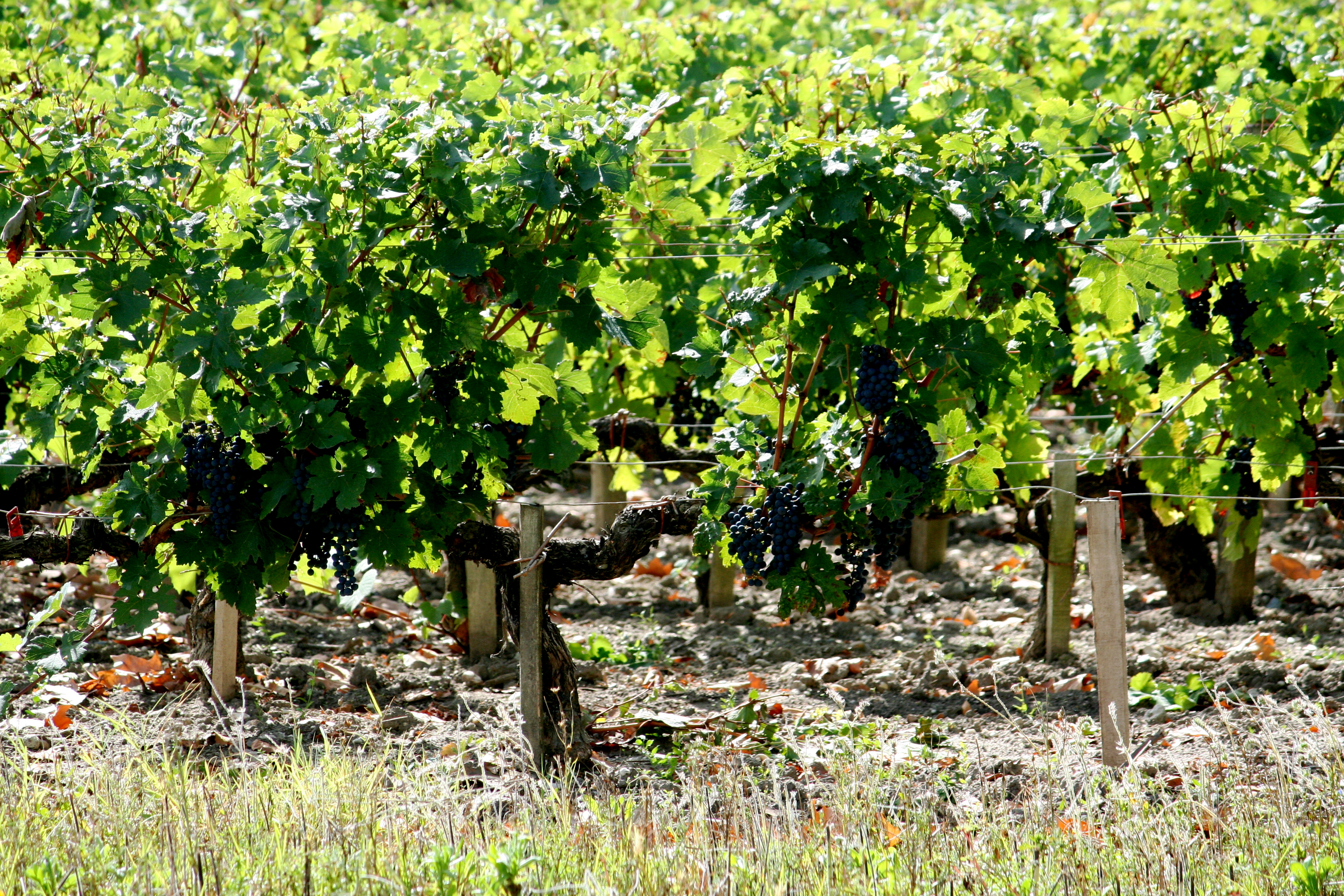 Cabernet Sauvignon vines growing in Bordeaux.